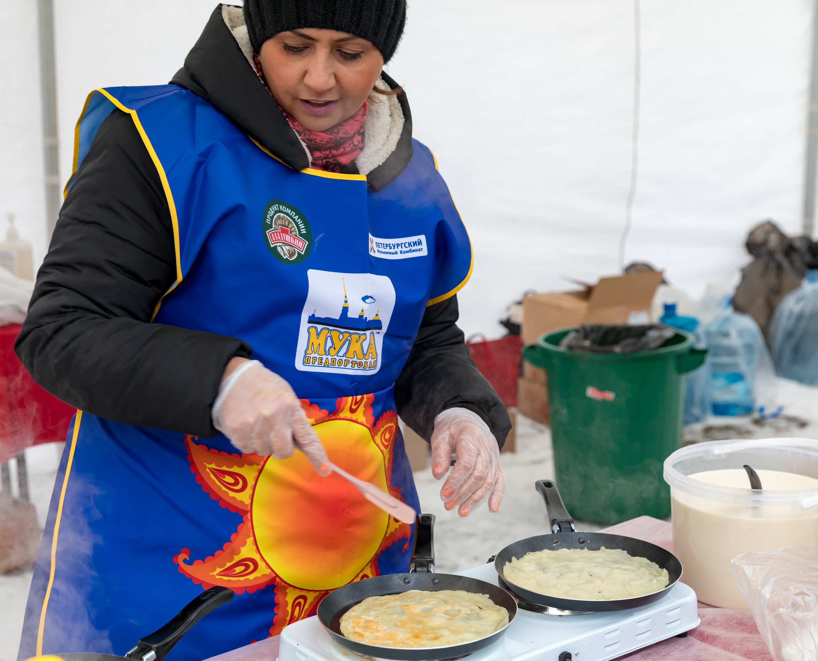 Maslenitsa in Krestovsky Island, Petersburg, Russia, making blin